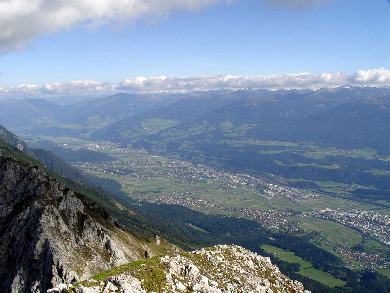 The Inntal valley, as seen from the top of Hafelekar, Innsbruck German description: Das Inntal, gesehen vom Hafelekar, Innsbruck